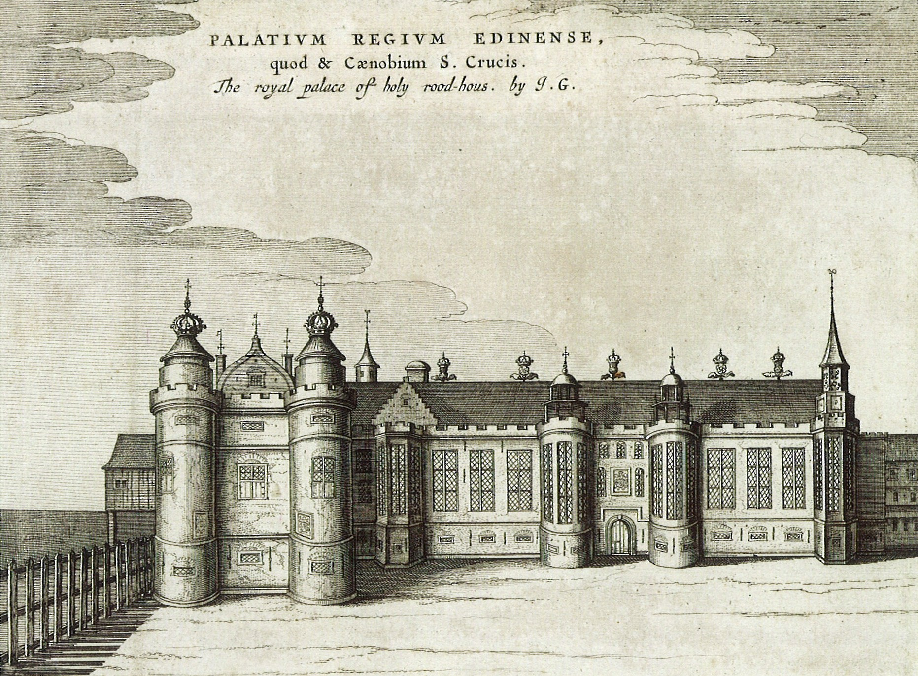 Engraving of the west front of Holyrood Palace, Edinburgh, before it was rebuilt in the 1670s